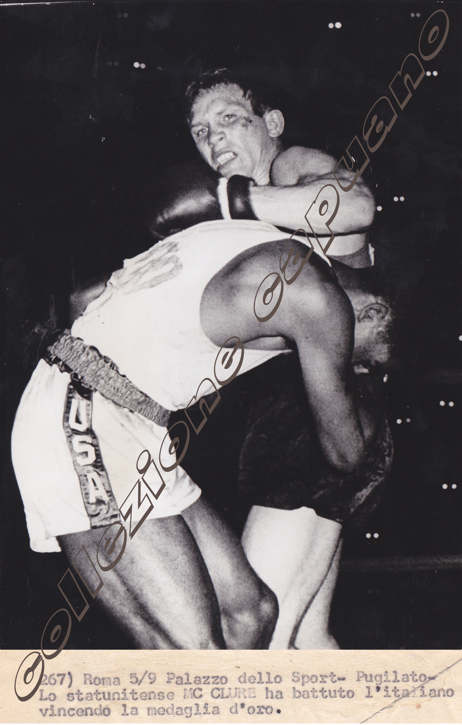 Wilbert McClure vs Carmelo Bossi, 1960 Olympics